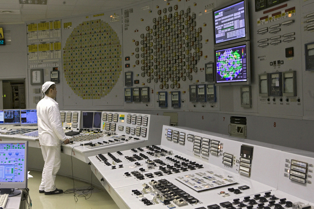 “Leningrad nuclear power plant”. The main control panel at the Leningrad nuclear power plant in Sosnovy Bor.